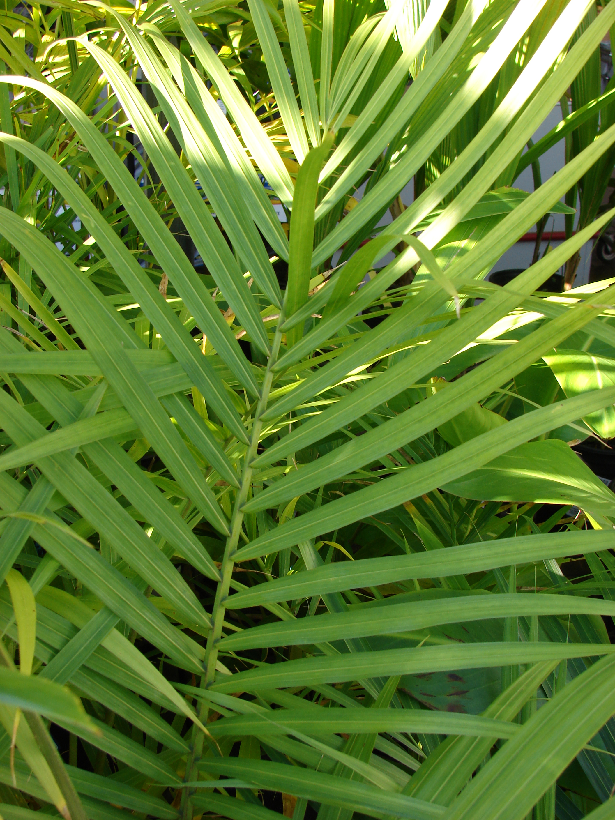 Ravenea rivularis (leaves). Location: Maui, Lowes Garden Center Kahului